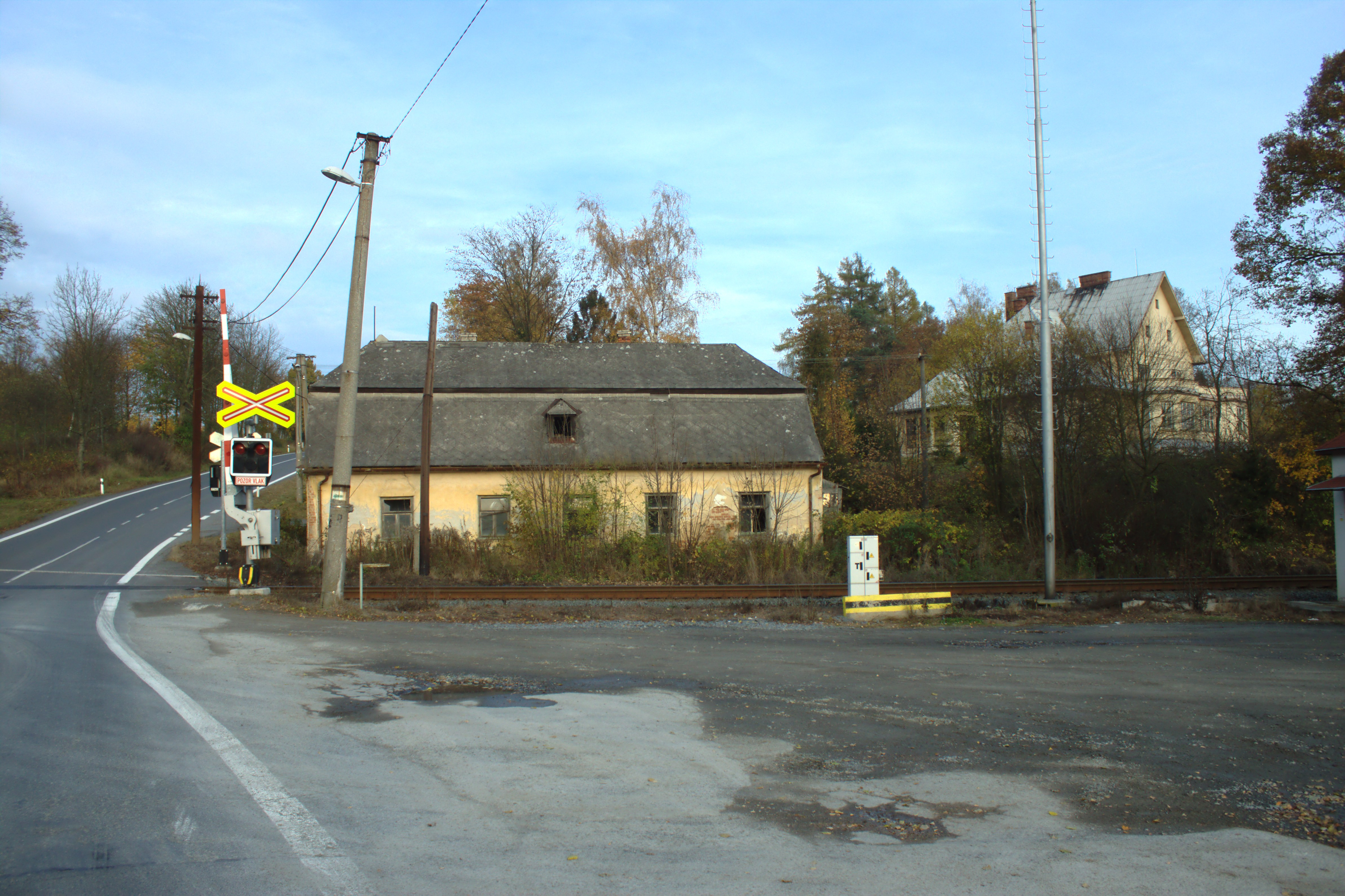 Buildings at the railway crossing in Ondrášov near Moravský Beroun, CZ